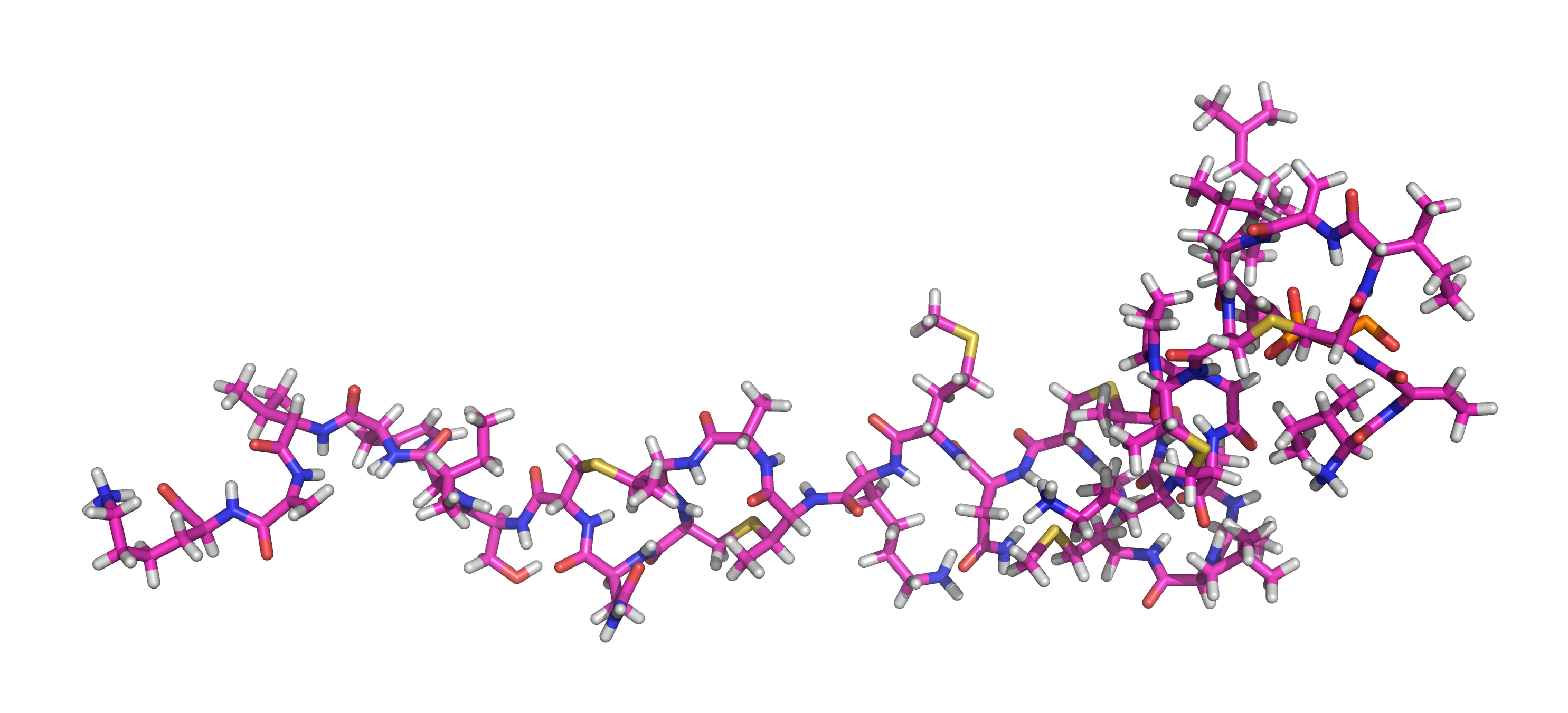 3d stick model of nisin from PDB 1WCO. Ref.: Hsu, S.T., Breukink, E., Tischenko, E., Lutters, M.A., de Kruijff, B., Kaptein, R., Bonvin, A.M., van Nuland, N.A. (2004) The nisin-lipid II complex reveals a pyrophosphate cage that provides a blueprint for novel antibiotics. Nat.Struct.Mol.Biol. 11: 963-967 PMID 15361862